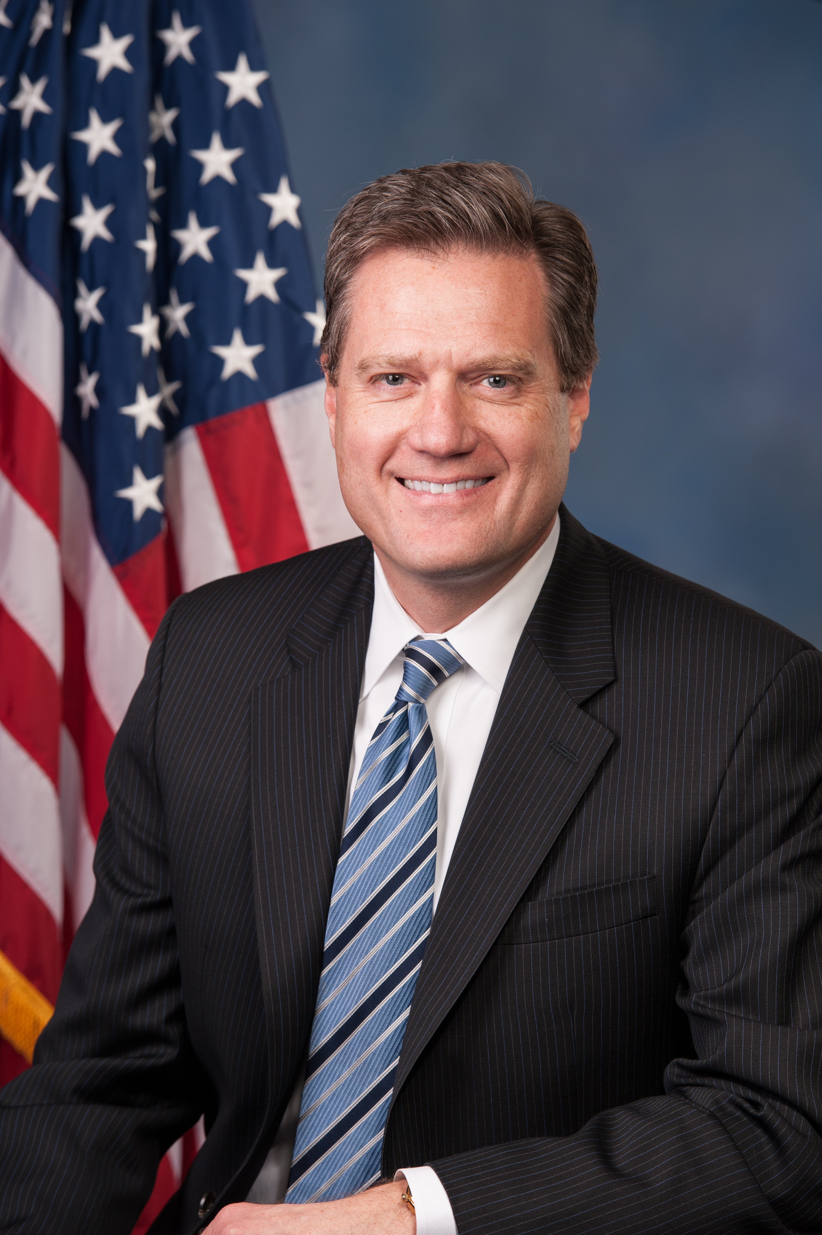 US Congressman Mike Turner